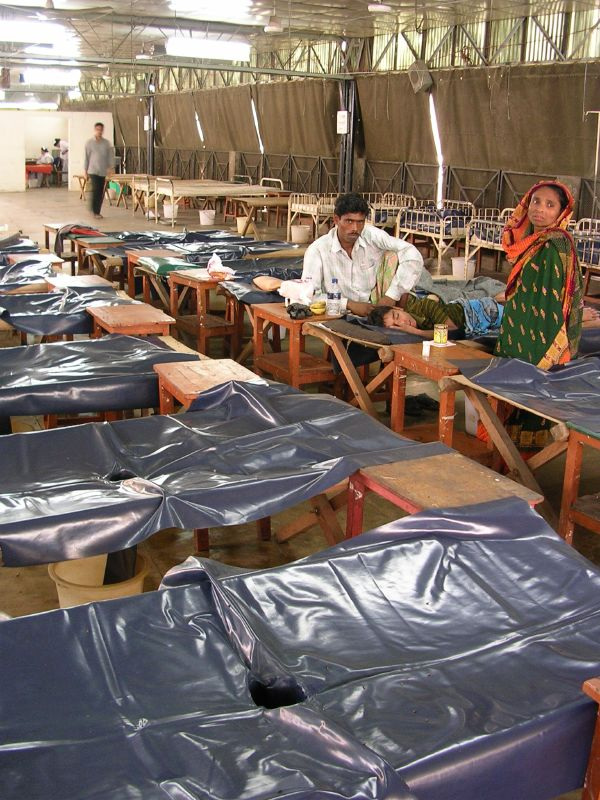 Cholera hospital with several empty beds, made up with plastic sheets and a hole for drainage One patient is present, along with two attendants (probably relatives).Cholera Hospital 1